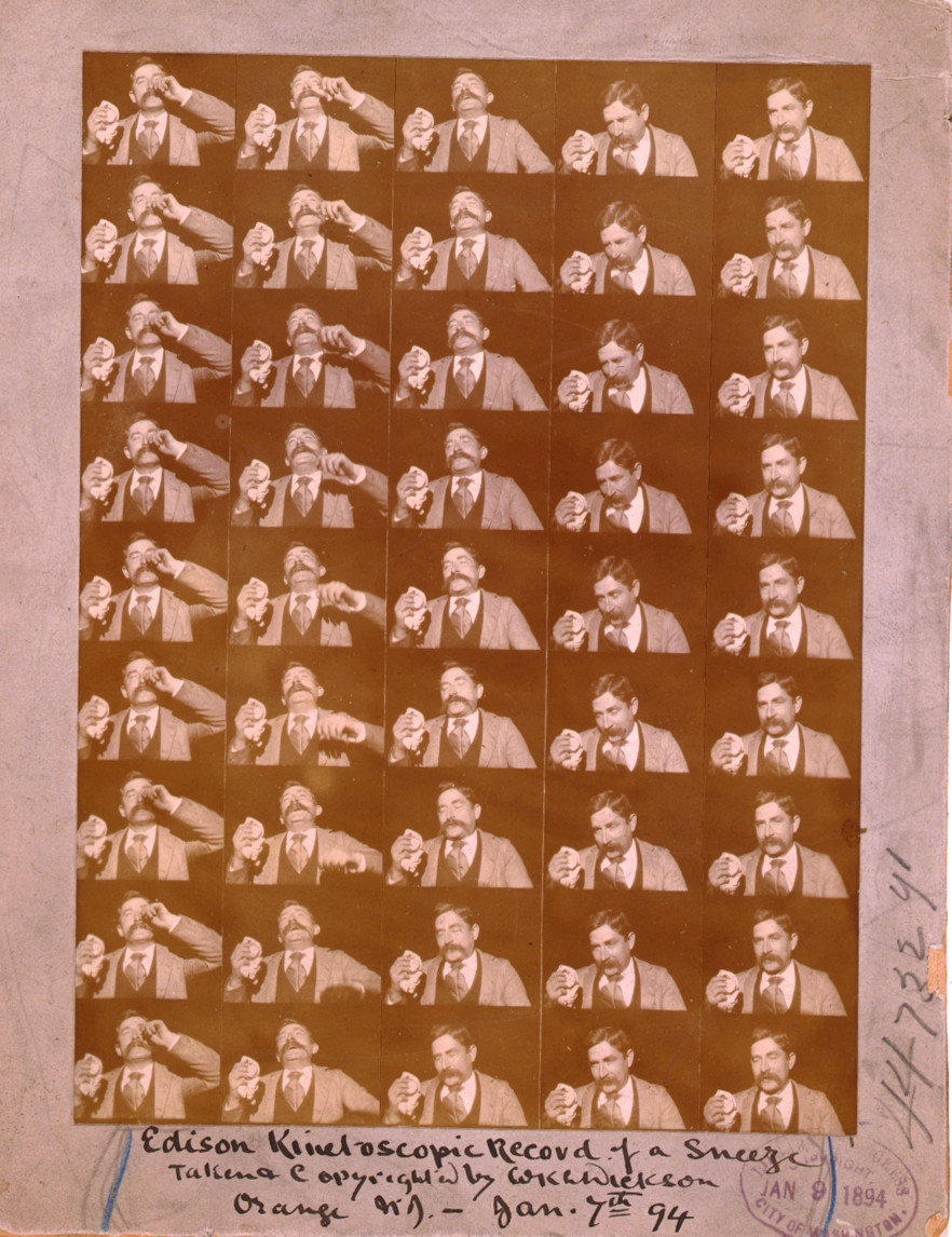 Edison Kinetoscopic Record of a Sneeze, also known as Fred Ott's Sneeze